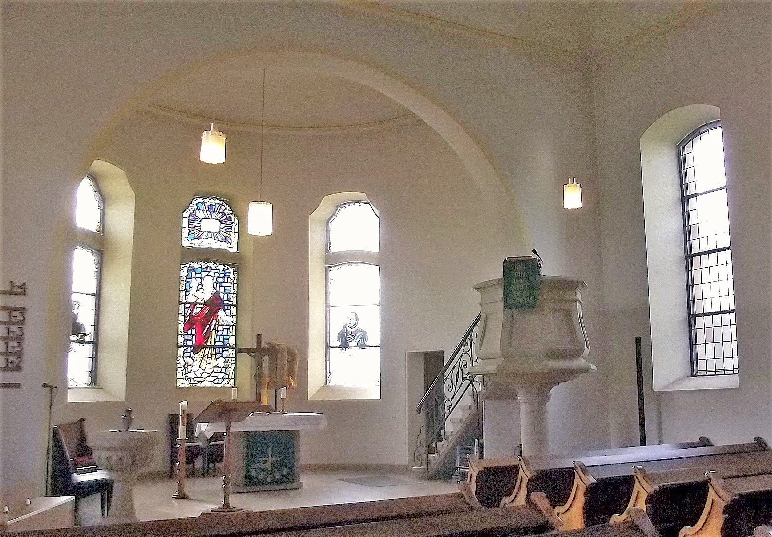 Interior of the protestant church in Uchtelfangen, Saarland, Germany